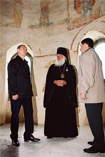 THE NOVGOROD REGION. President Putin with Lev, the Archbishop of Novgorod and Staraya Russa, and Governor of the Novgorod Region Mikhail Prusak at St George's Monastery.